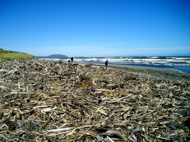 Driftwood near Porirua, New Zealand.